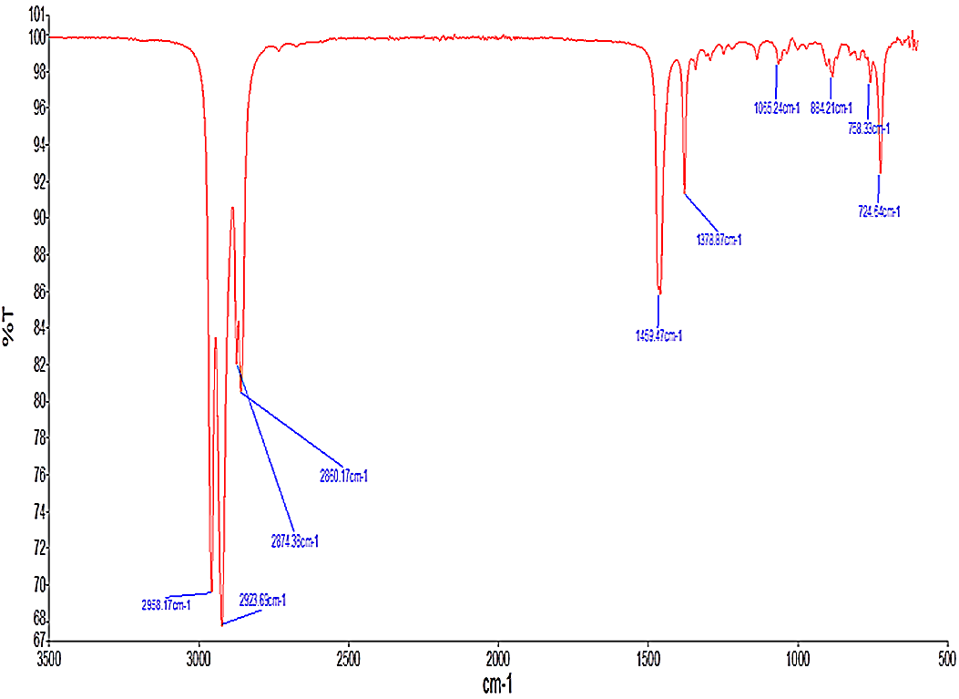 ATR FTIR spectra for hexane. Graph shows percent transmittance (%T) at each wavenumber (cm-1).